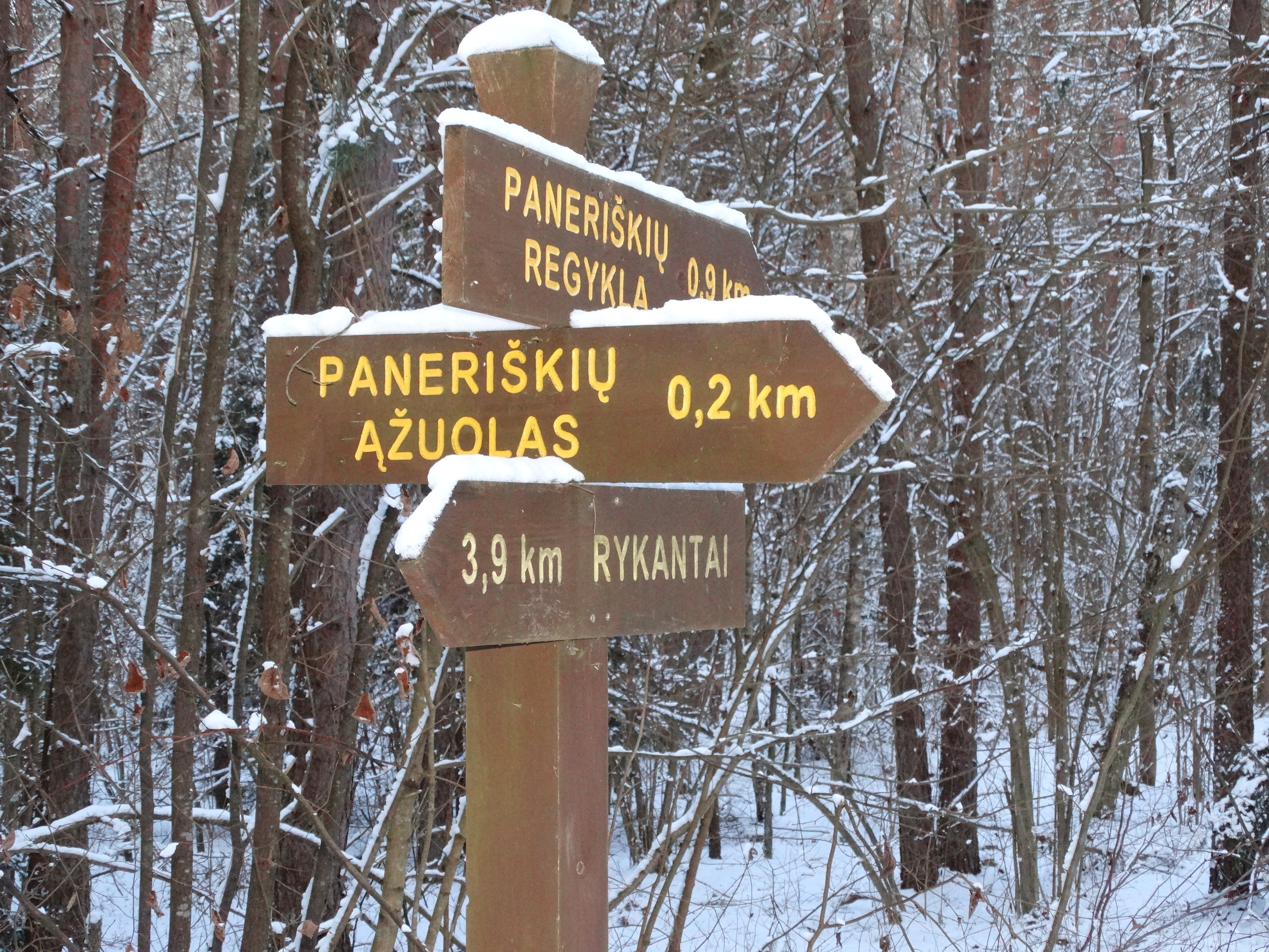 Directional road signs, forest by Paneriškės, Elektrėnai Municipality, Lithuania